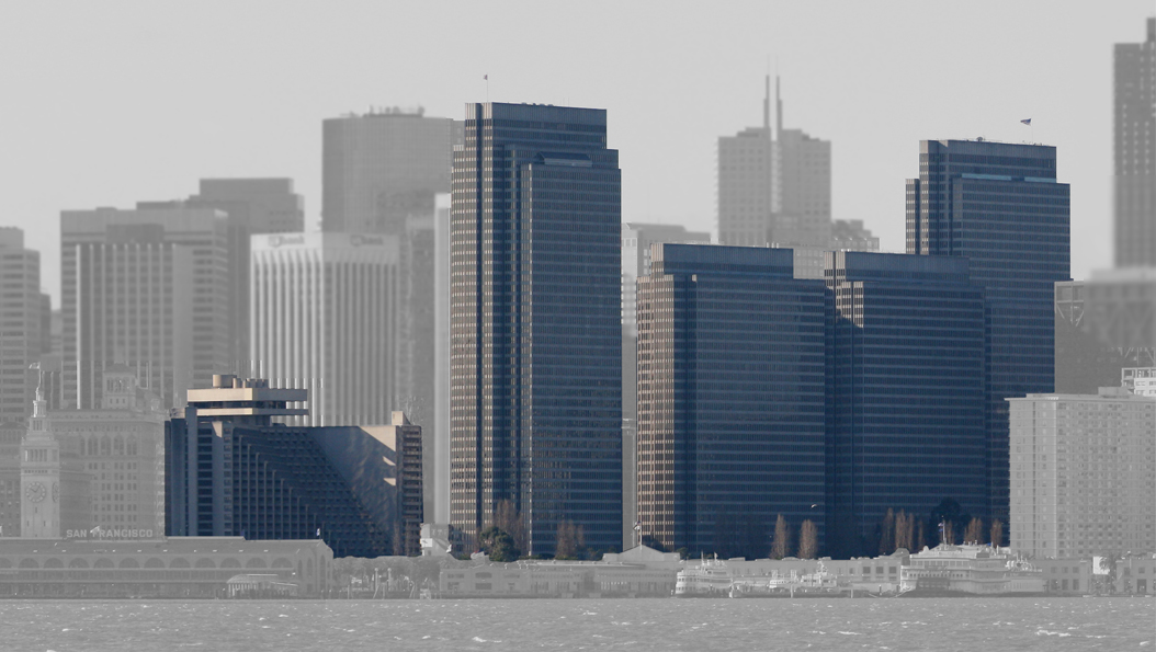 Hyatt Regency hotel and four towers of Embarcadero Center highlighted — San Francisco. Le Meridien hotel to right is hidden by taller buildings